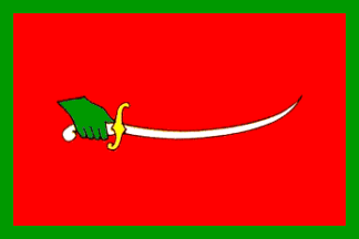 DFlag